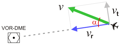 Distance Measuring Equipment is a device for air navigation, and is installed with VOR stations. DME also can measure the speed of airplane by Doppler effect, but that is only the radial component (blue) of the real speed vector (green). The other, the tangential component (grey) is invisible for this instrument. As the airplane flies by the radio station, the relative angle of its speed is continuously changing, so are the vr and vt components. When the moving direction of the airplane is just perpendicular to the direction of the station then DME indicates 0 speed. Measuring relative direction of the station we get α, the angle between vr and v vectors. Because v = vr / cos α, still we do know the real v speed, too.